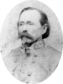 John Porter McCown (1815–1879), Confederate Major-General from